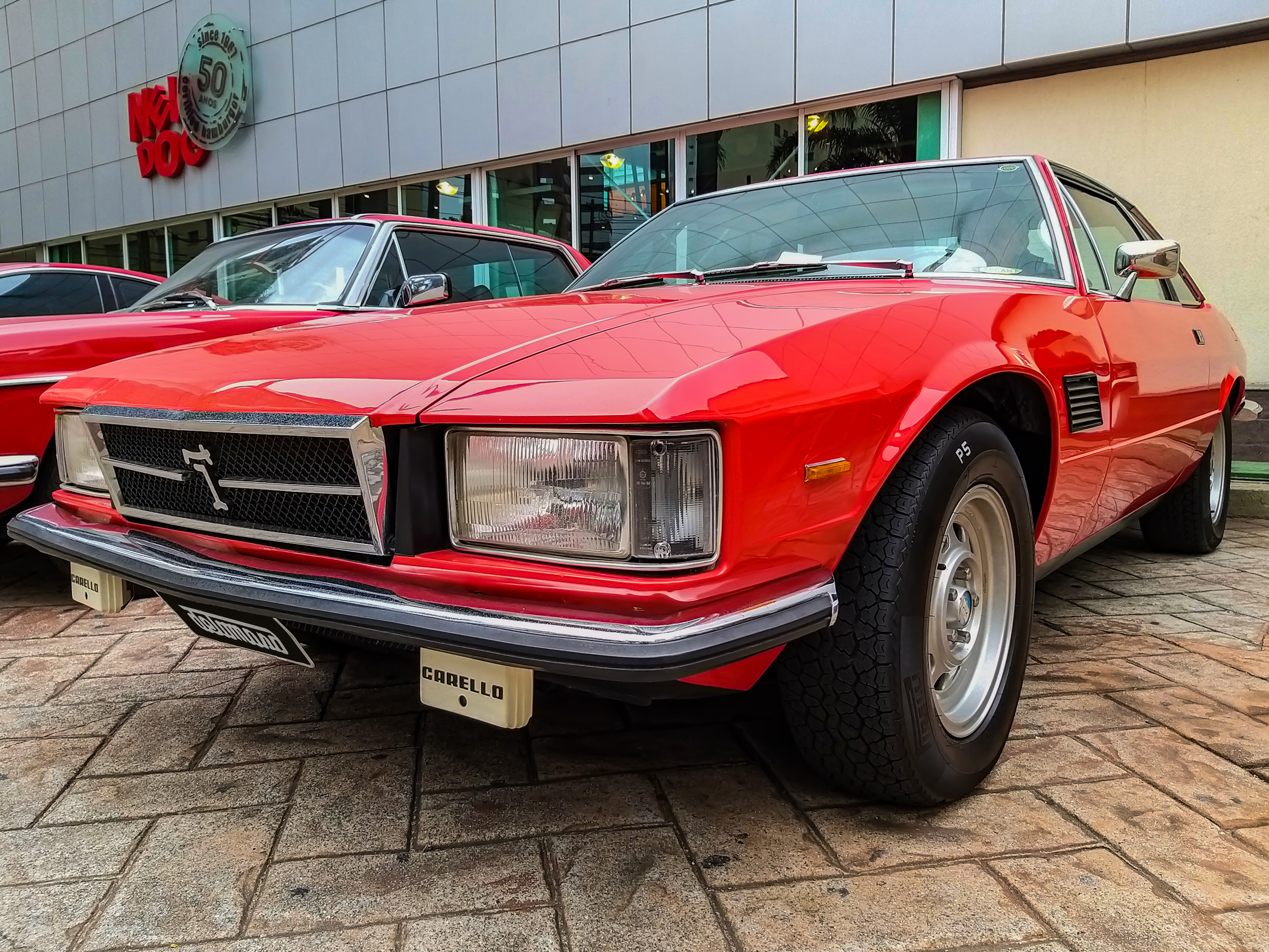 1975 De Tomaso Longchamp